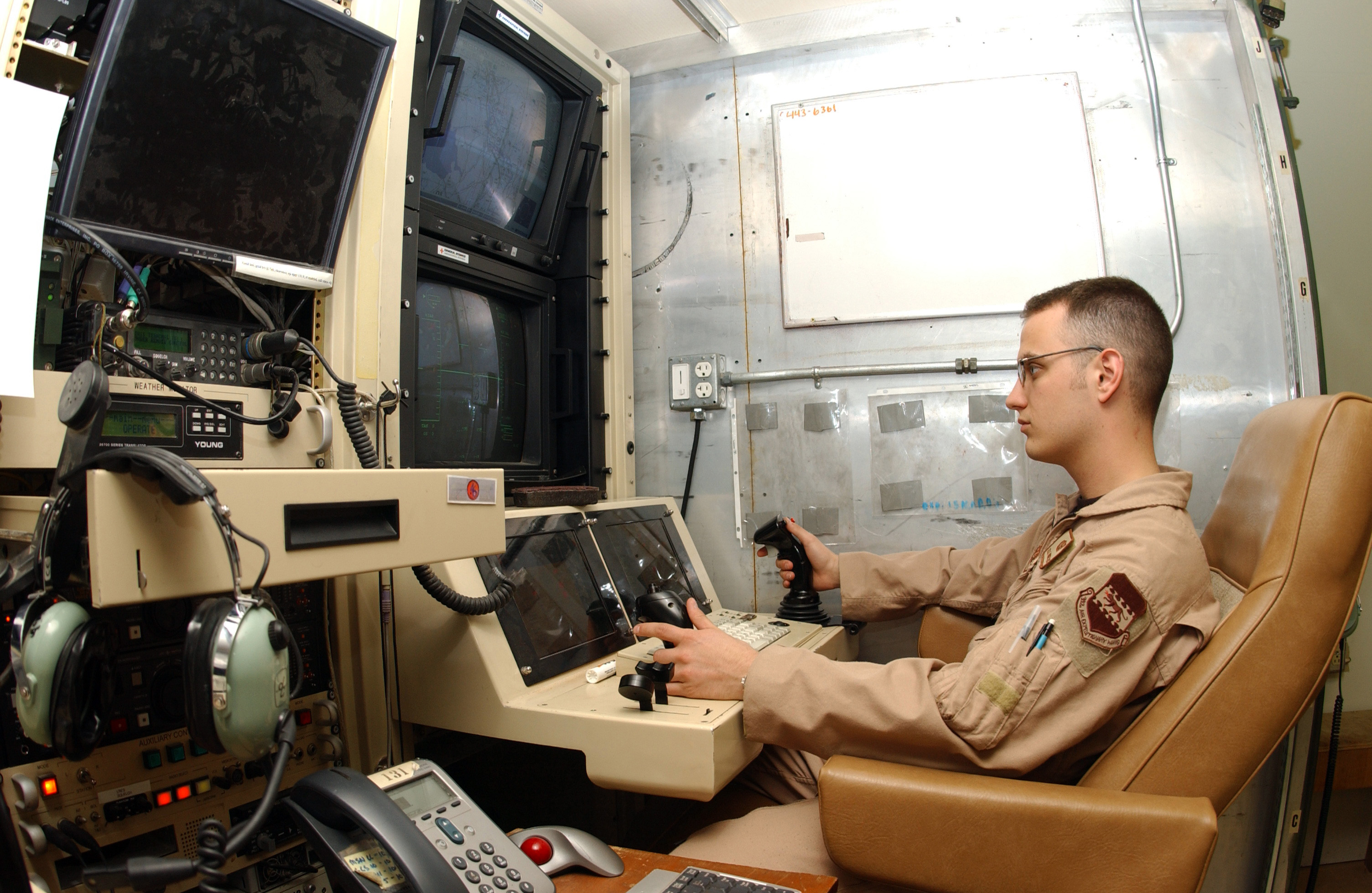 Airman 1st Class Kyle Bridges sits in the sensor operator's chair at an RQ-1 Predator Unmanned Aerial Vehicle ground control station at Balad Air Base, Iraq.